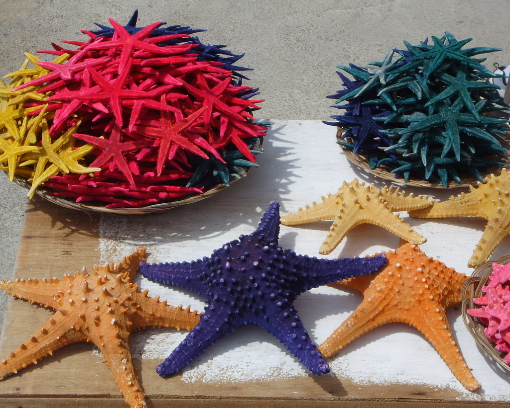 Piles of starfish, different sizes, pink orange and violet, on a market stall